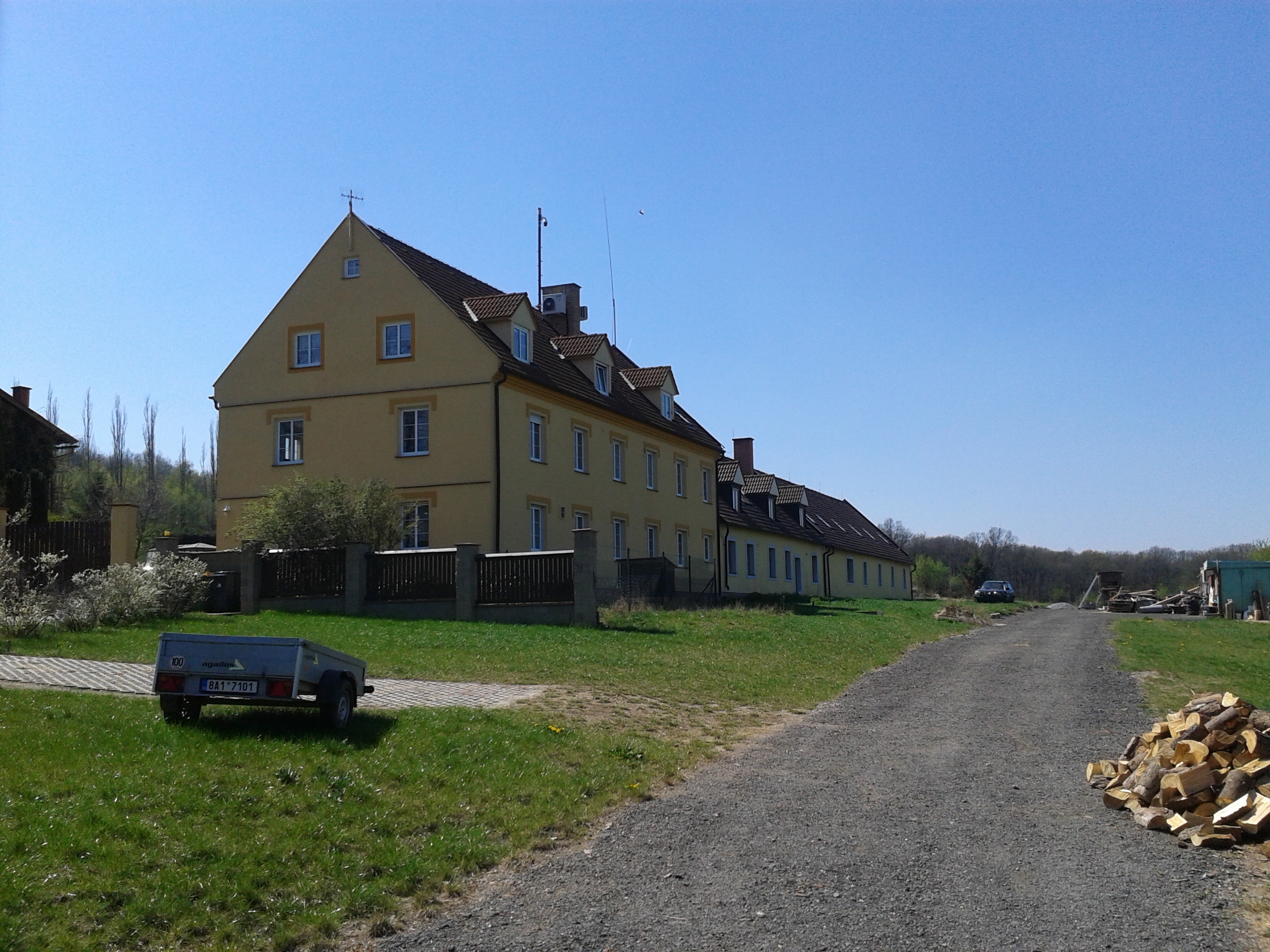 Solitude of Nouzov between the village and the airport, the place where the stronghold of Otik Pejsa of Tocna stood